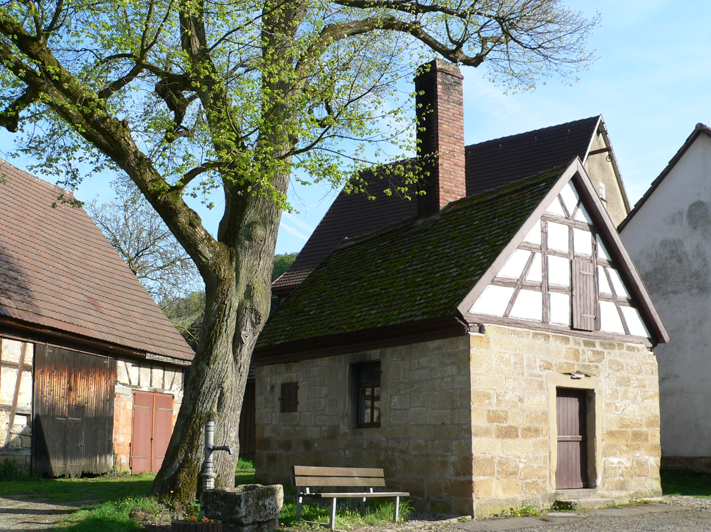 Old House for Baking of the Village Neckarsulm-Dahenfeld (built: 1838)